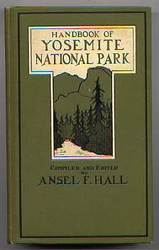 Cover of Ansel Hall's 1921 Guide to Yosemite Park.